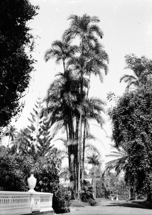 Bactris gasipaes (synomym: Bactris speciosa) Peach palms in garden of the Netherlands Indies era. Lands Plantentuin, Bogor, Buitenzorg - Indonesia.